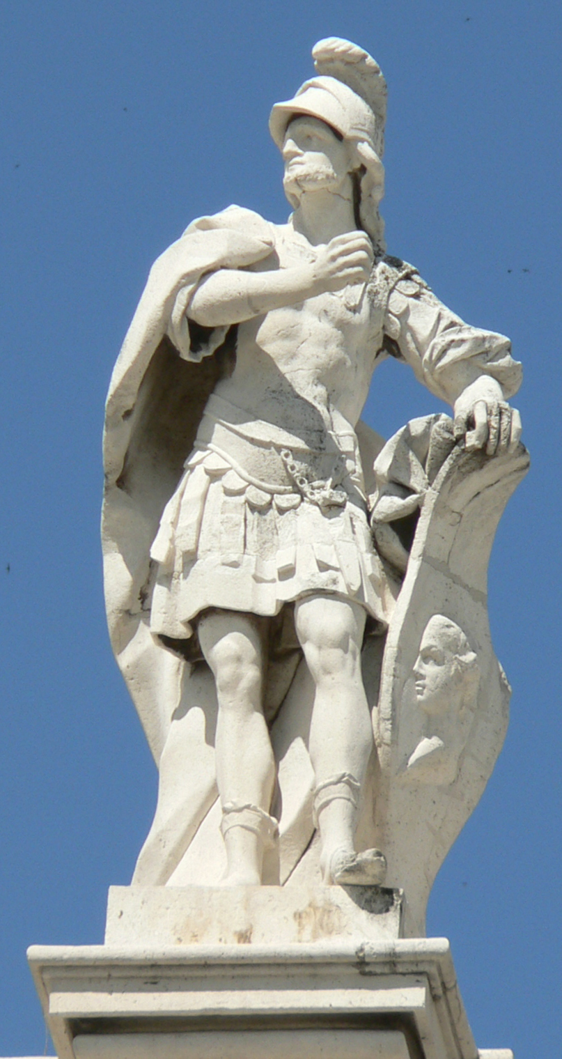 Statue of Teodorico I, Visigoth king, on the balustrade of the Royal Palace of Madrid.